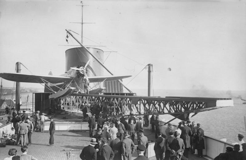 The Heinkel He 12 D-1717 on board the TS Bremen. This aircraft was lost during the night of 5-6 October 1931 over Cobequid Bay, Nova Scotia, Canada with crew members Simon and Wagenkneecht.